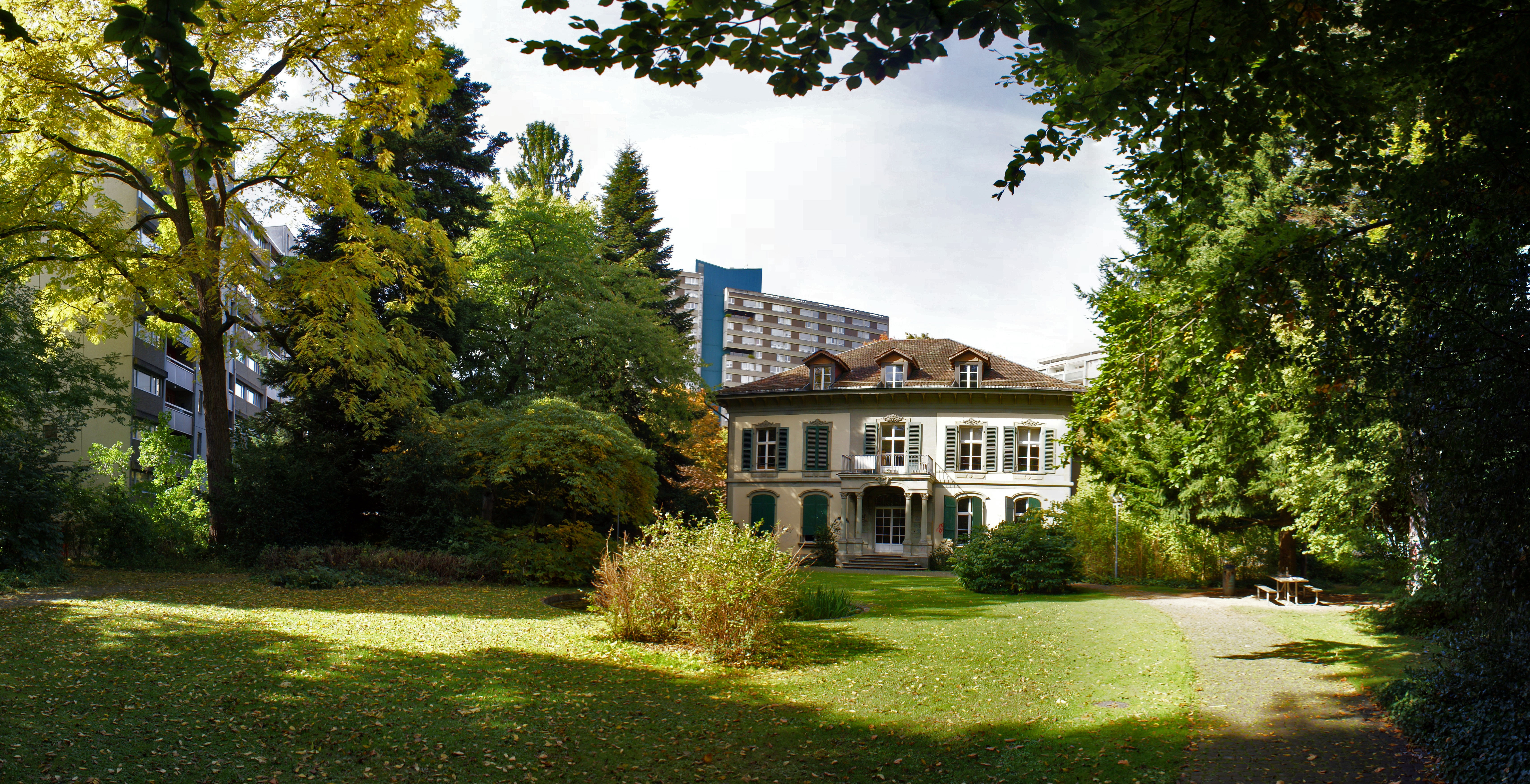 Feller estate, Bümpliz, Berne, Switzerland.